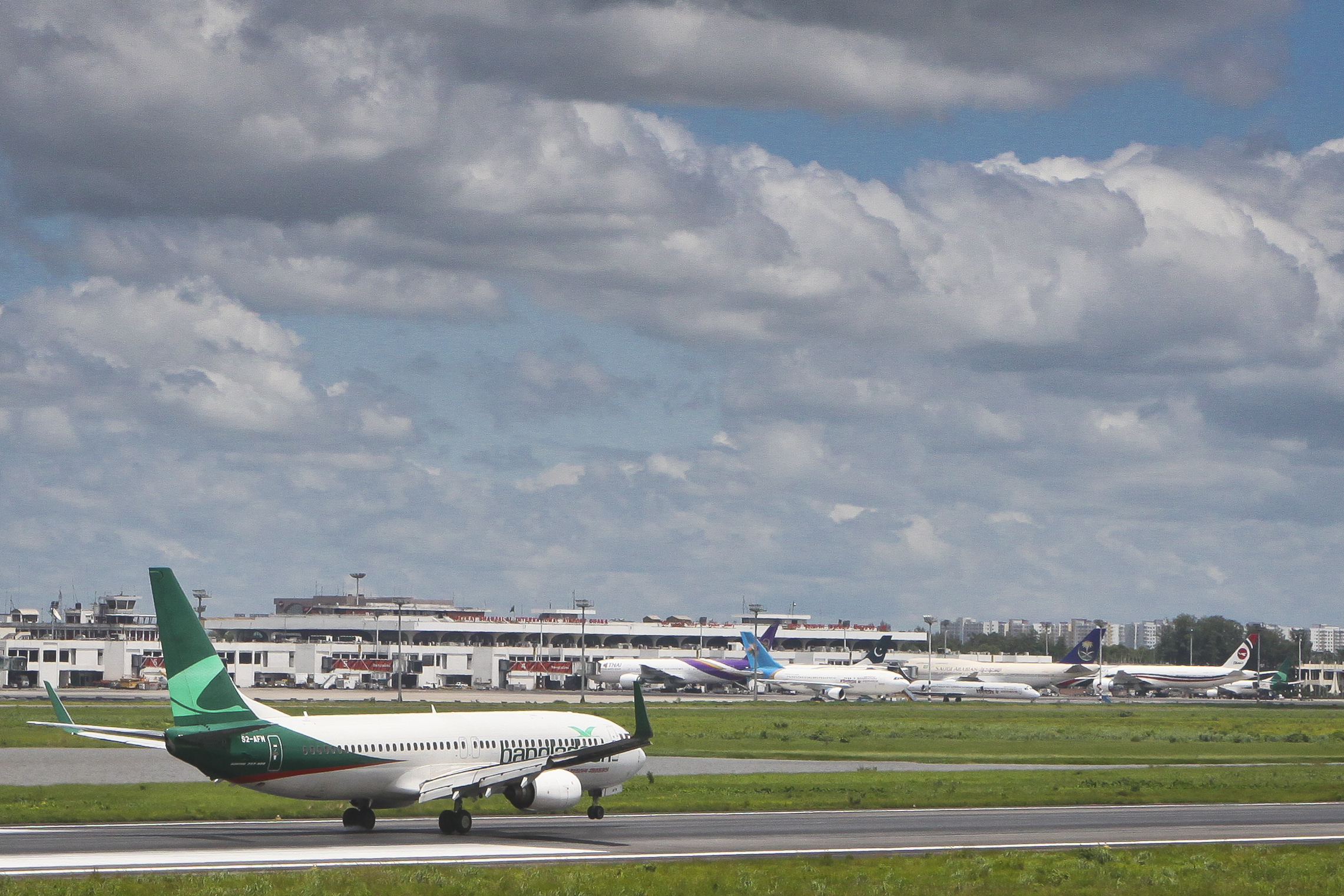 A smoky landing of Biman Bangladesh Airlines Boeing 737-85R S2-AFM , while several others can been seen swarming in the gate area. A busy day at Hazrat Shahjalal International Airport, Dhaka indeed.